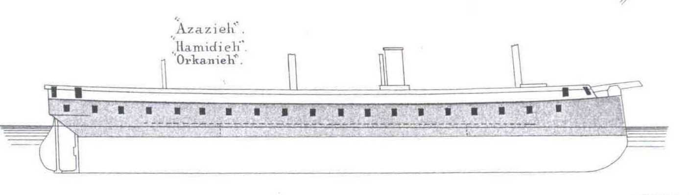 Turkish Ironclad Orkanieh, launched in 1865, and belonging to the Osmanieh class of broadside ironclads.